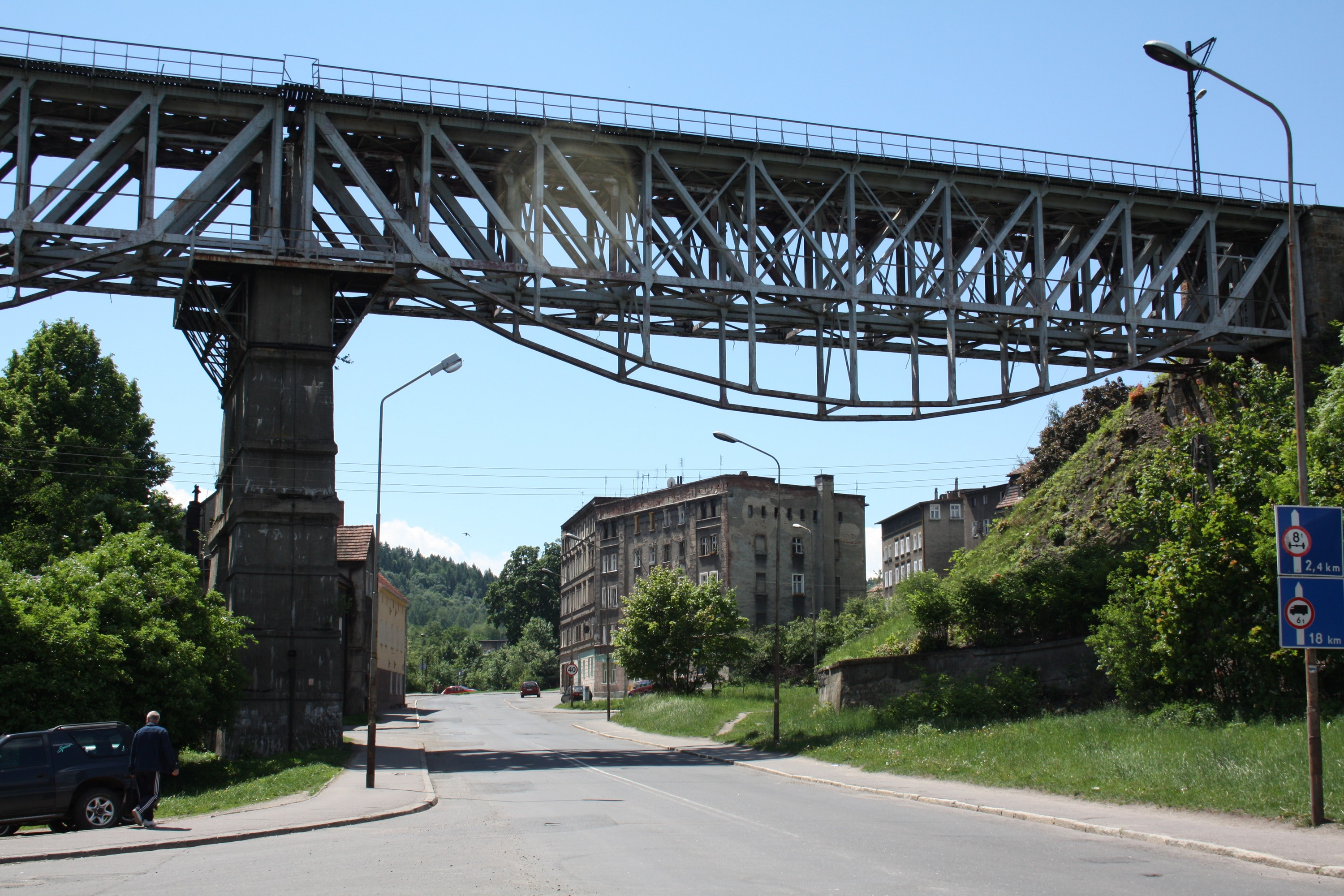 Railway overpass in Wałbrzych